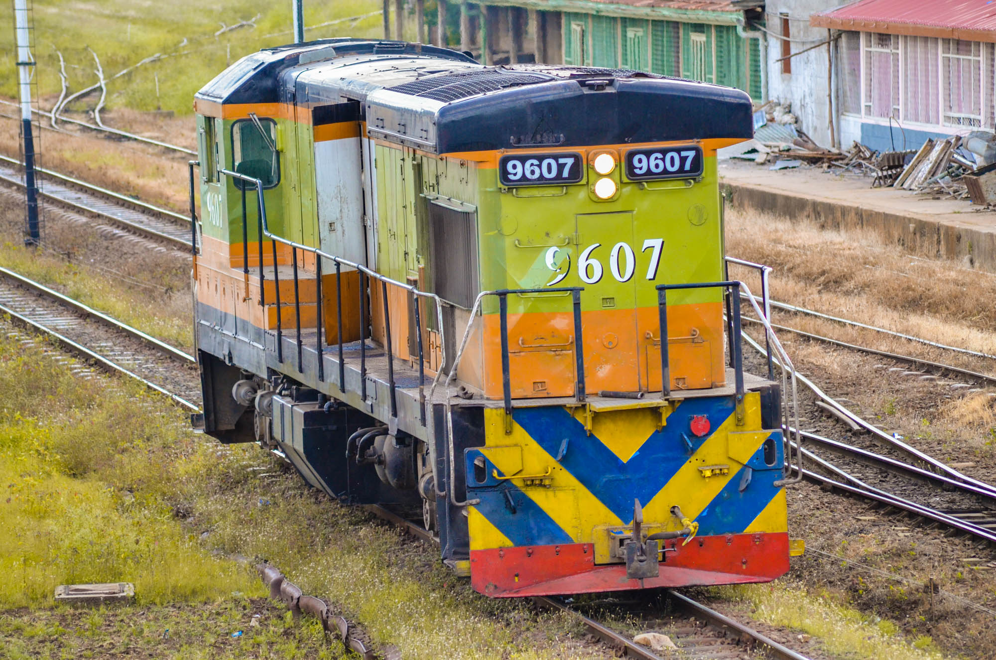 This types of engine has been now replaced by the newly established SGR locomotive that uses electric technology. This is an image with the theme "Africa on the Move or Transport" from: Kenya